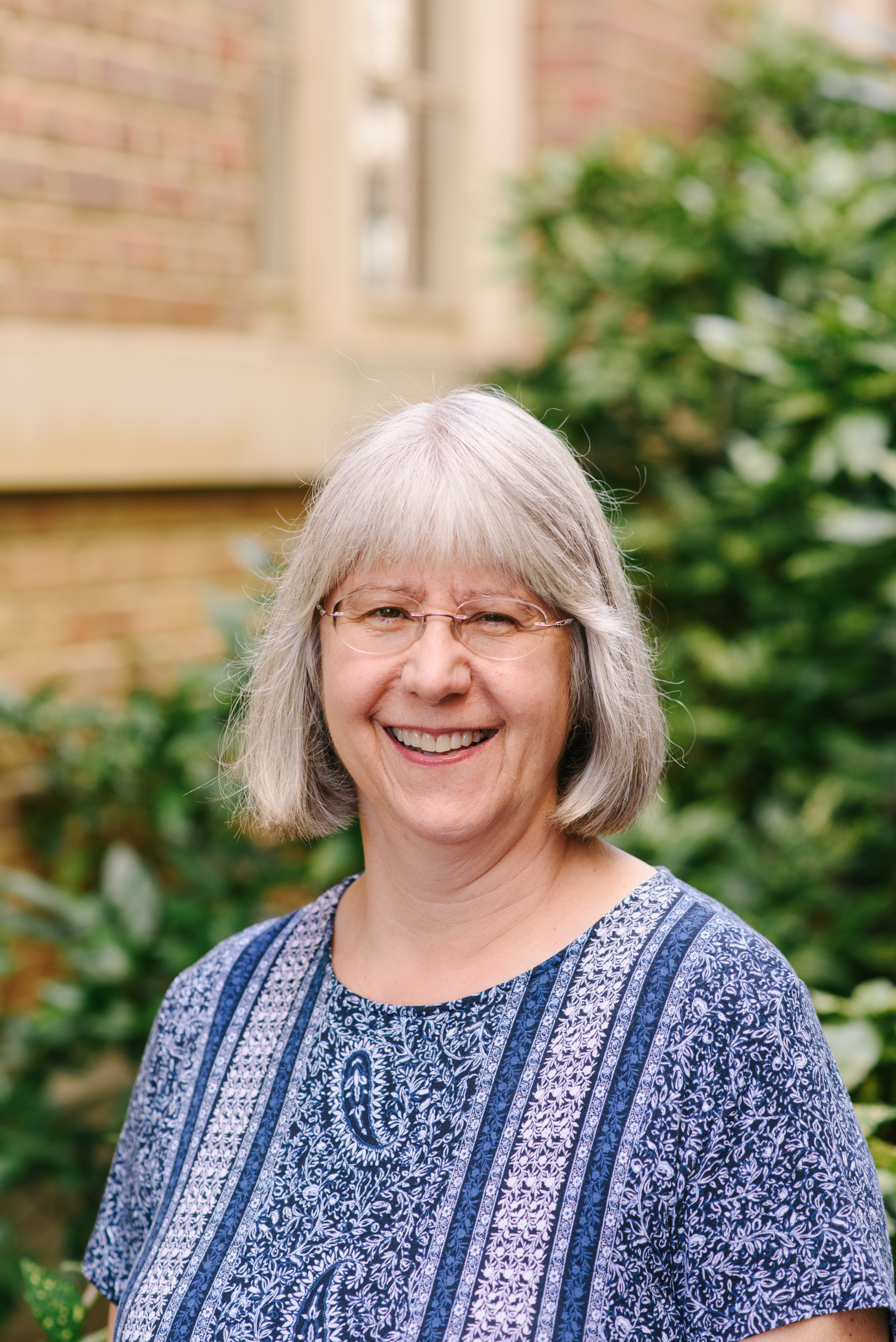 Photograph of Patricia Sawin, taken by KC Hysmith, 2018